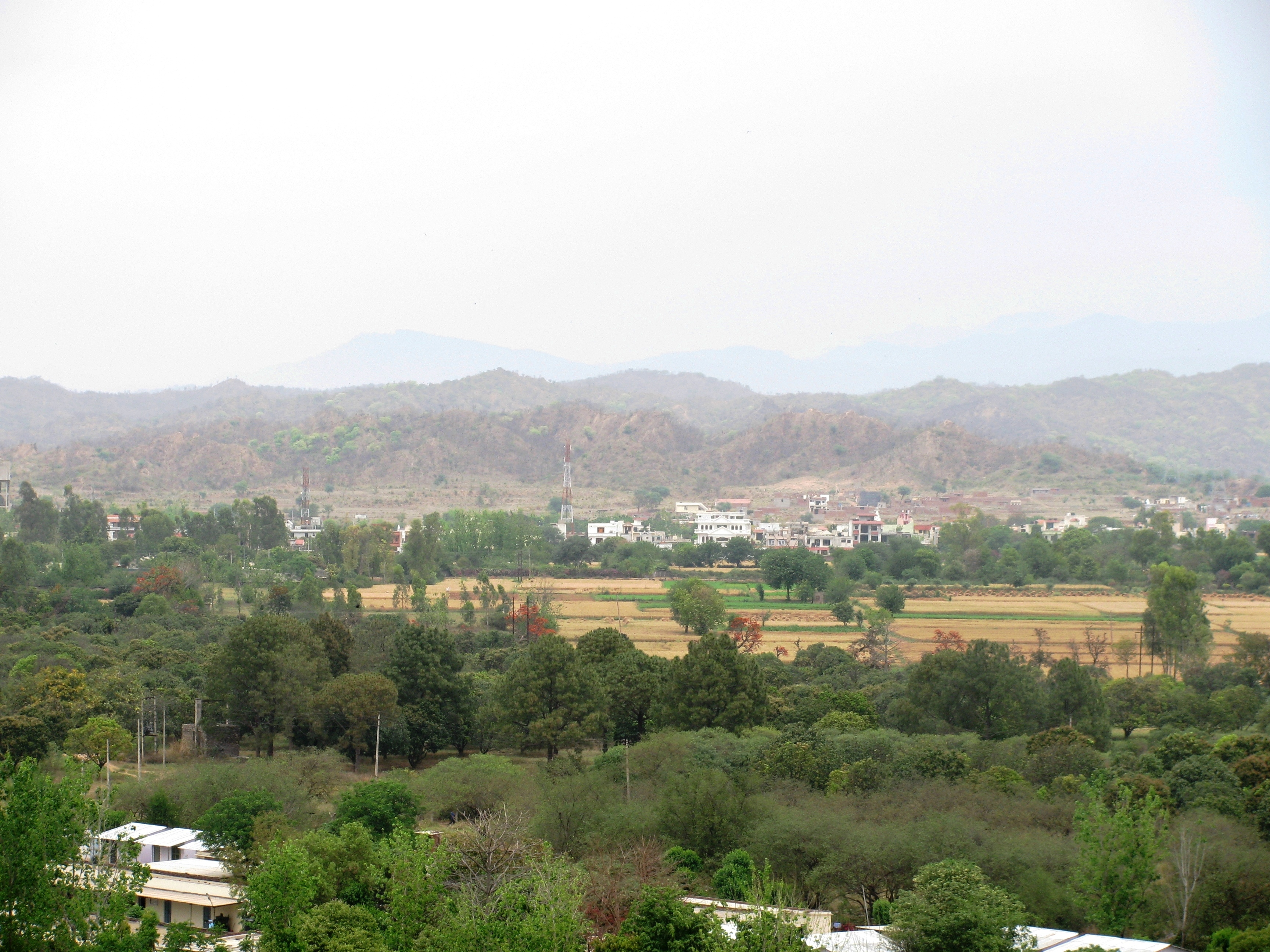 Shivalik Hills seen from the Chandigarh Secretary